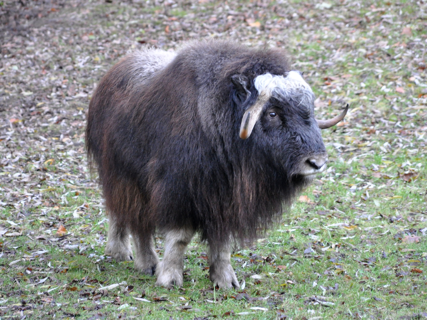 Muskox (Ovibos moschatus) in the Lüneburg Heath wildlife park, Germany.